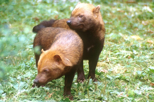 Speothos venaticus